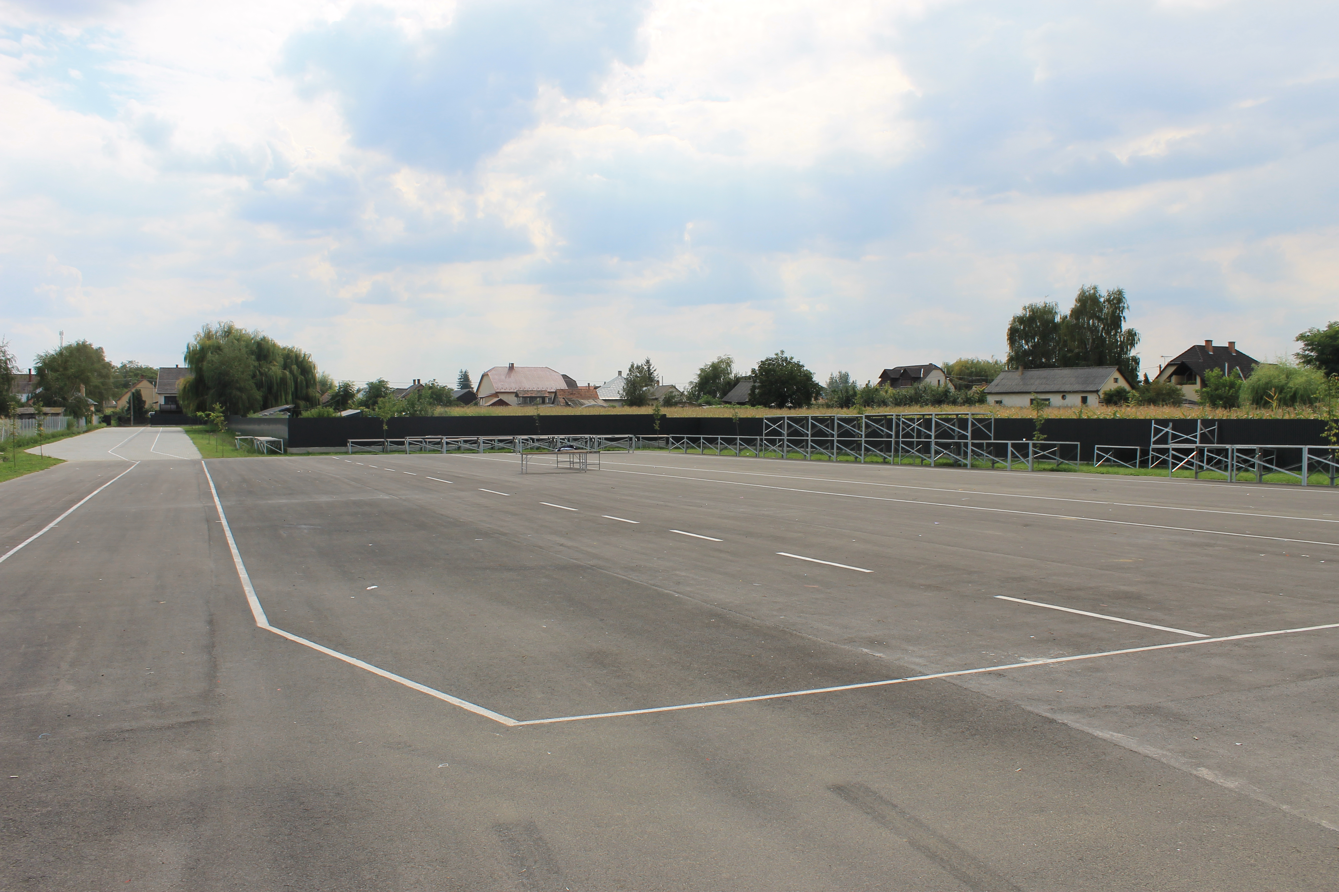 Farmers market in Balkány